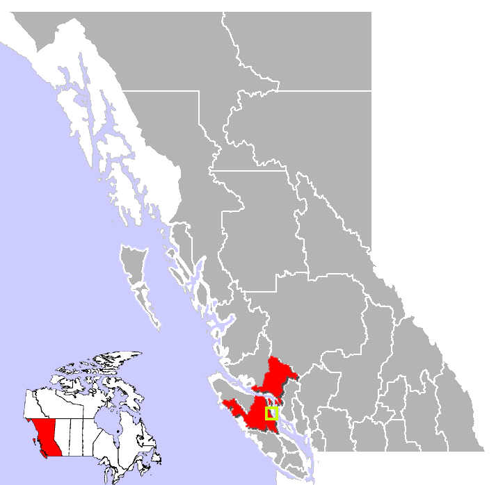 Location of Campbell River